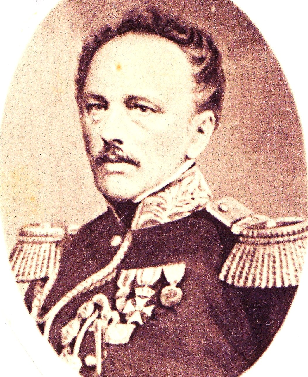 C.A. de Brauw